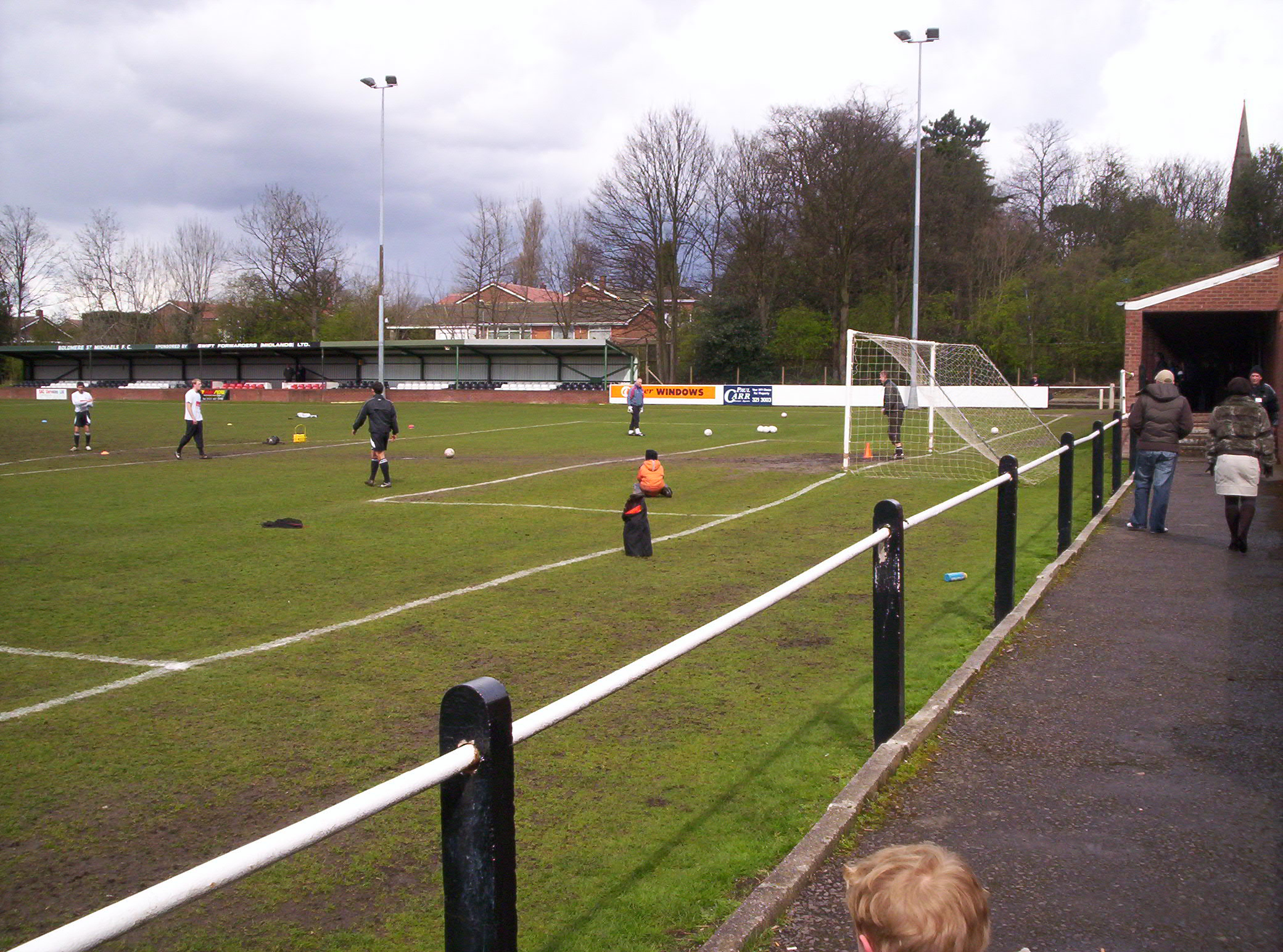 The Trevor Brown Memorial Ground, home of Boldmere St Michaels F.C., photographed in April 2008 by me